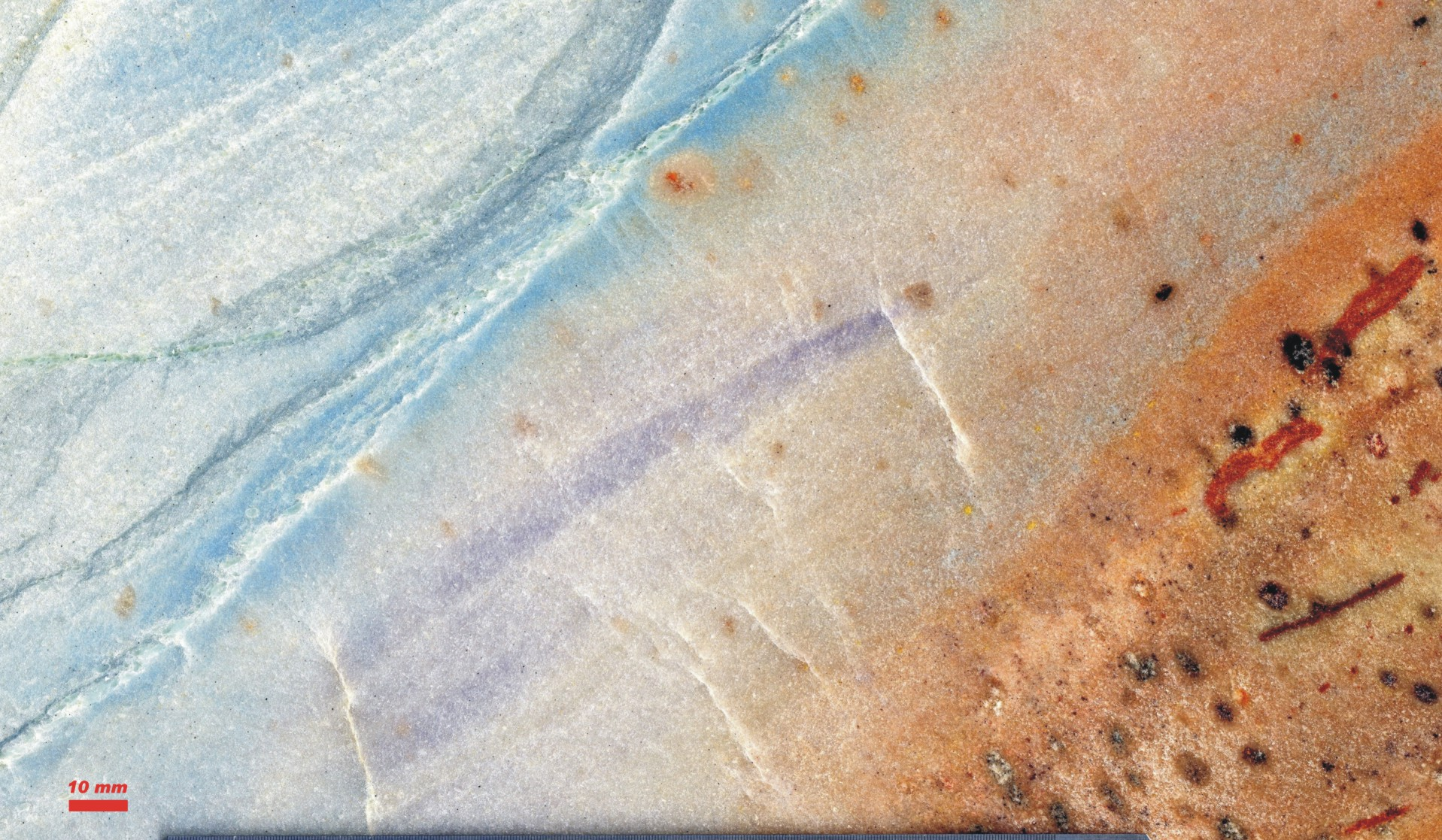 Quartzite: dimension stone Azul Imperial (Brazil)